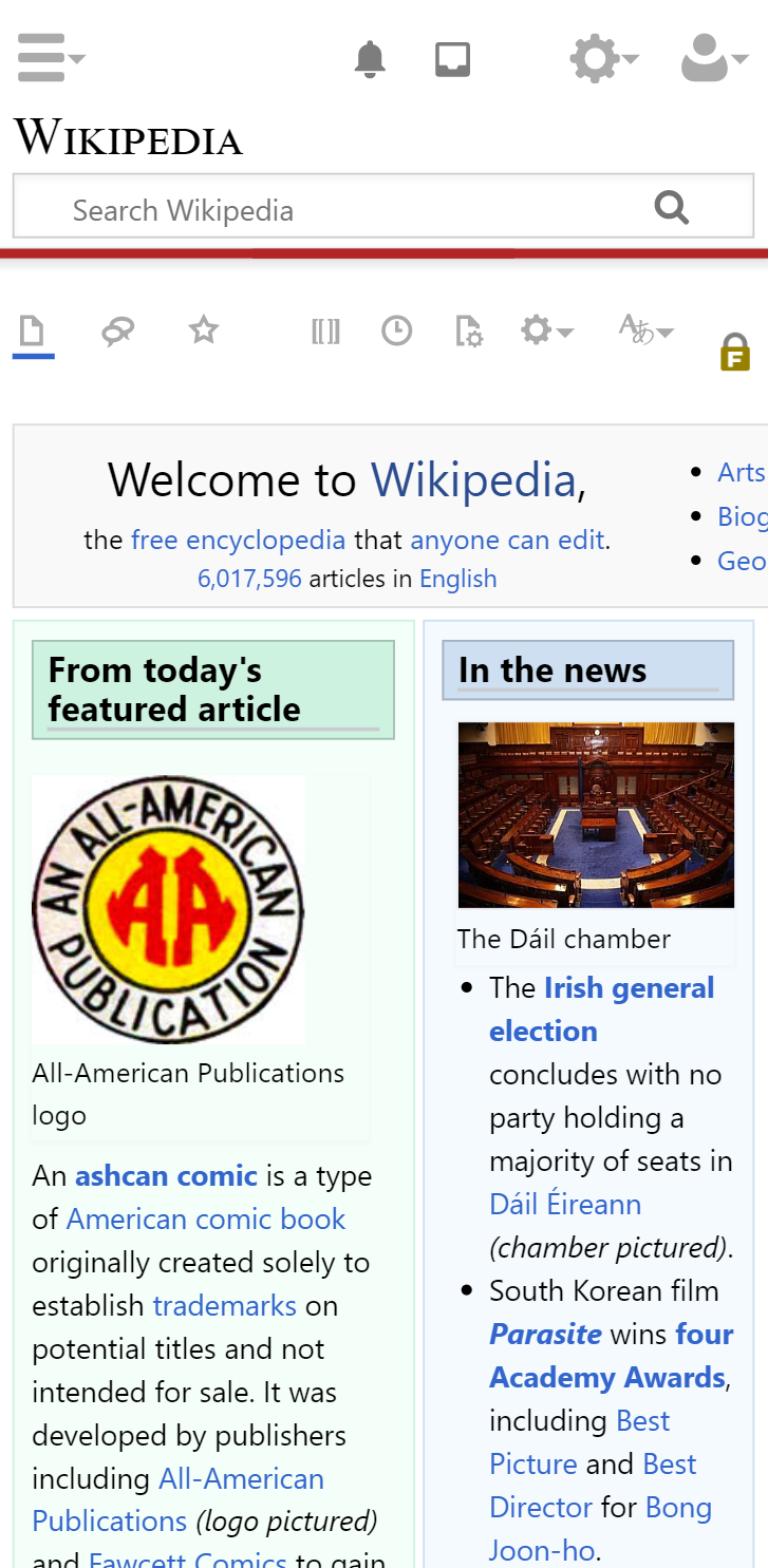 A screenshot of Wikipedia's main page as seen with the Timeless skin. The skin renders differently depending on the device.